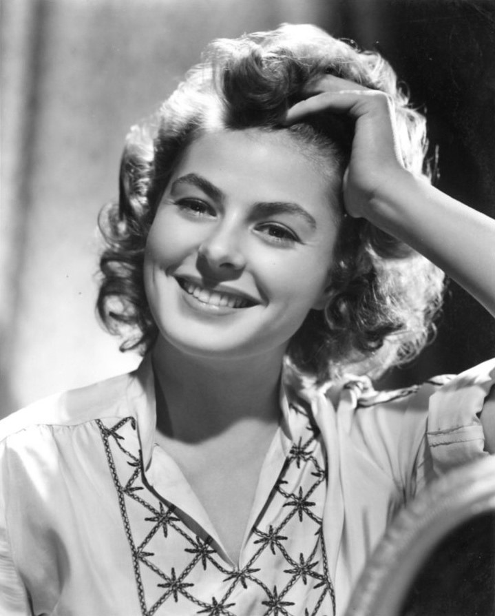 Original press release publicity photo of Ingrid Bergman for film Gaslight (1944). Original upload shows reverse side with descriptive text.